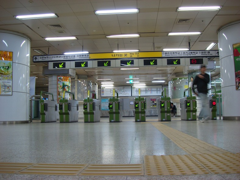 Cheongdam Station